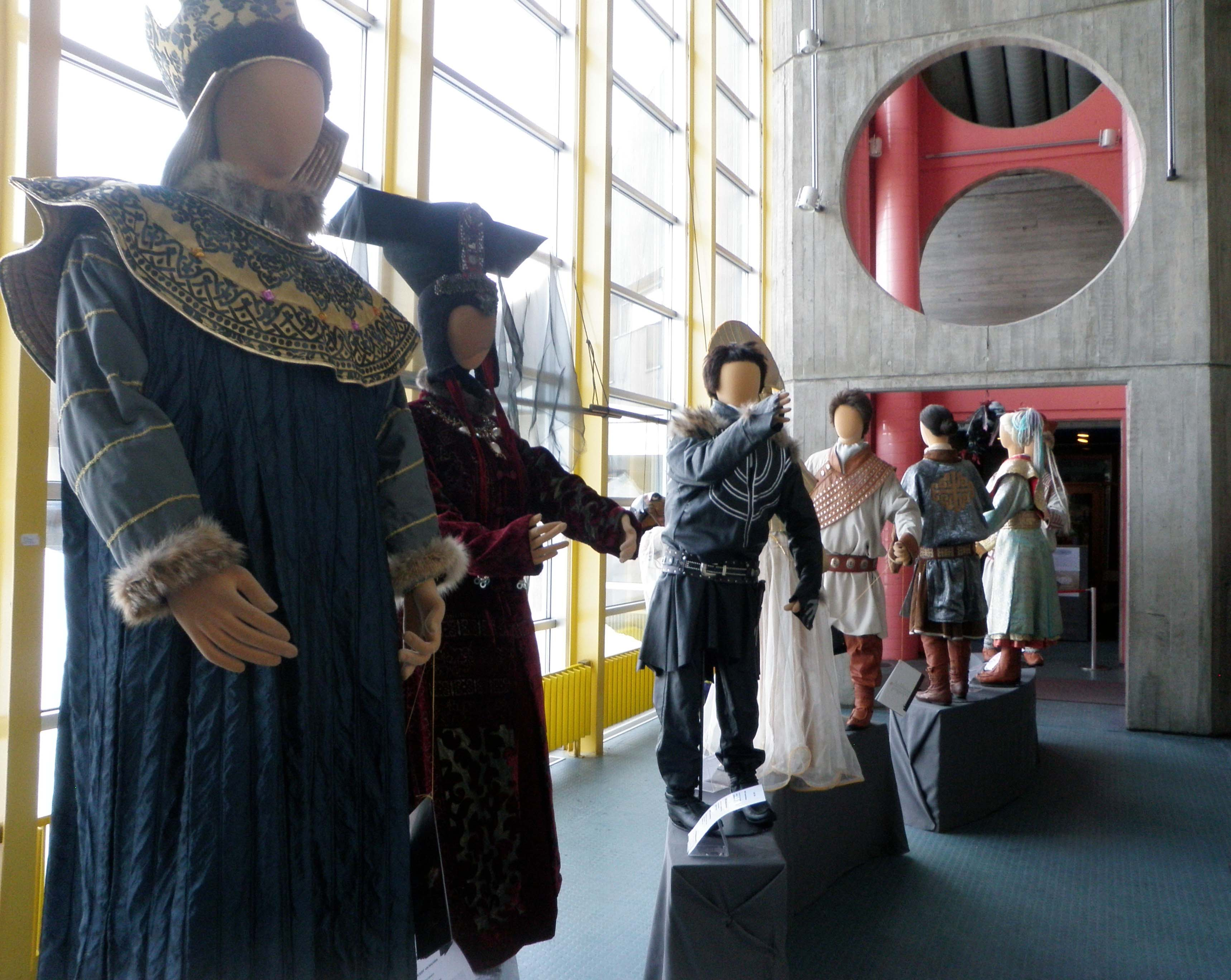 Costume exhibition at Beaivváš Sámi Theatre, in Kautokeino, Finnmark, Norway.